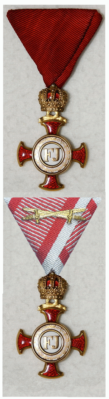 Civil Cross of Merit of Austria